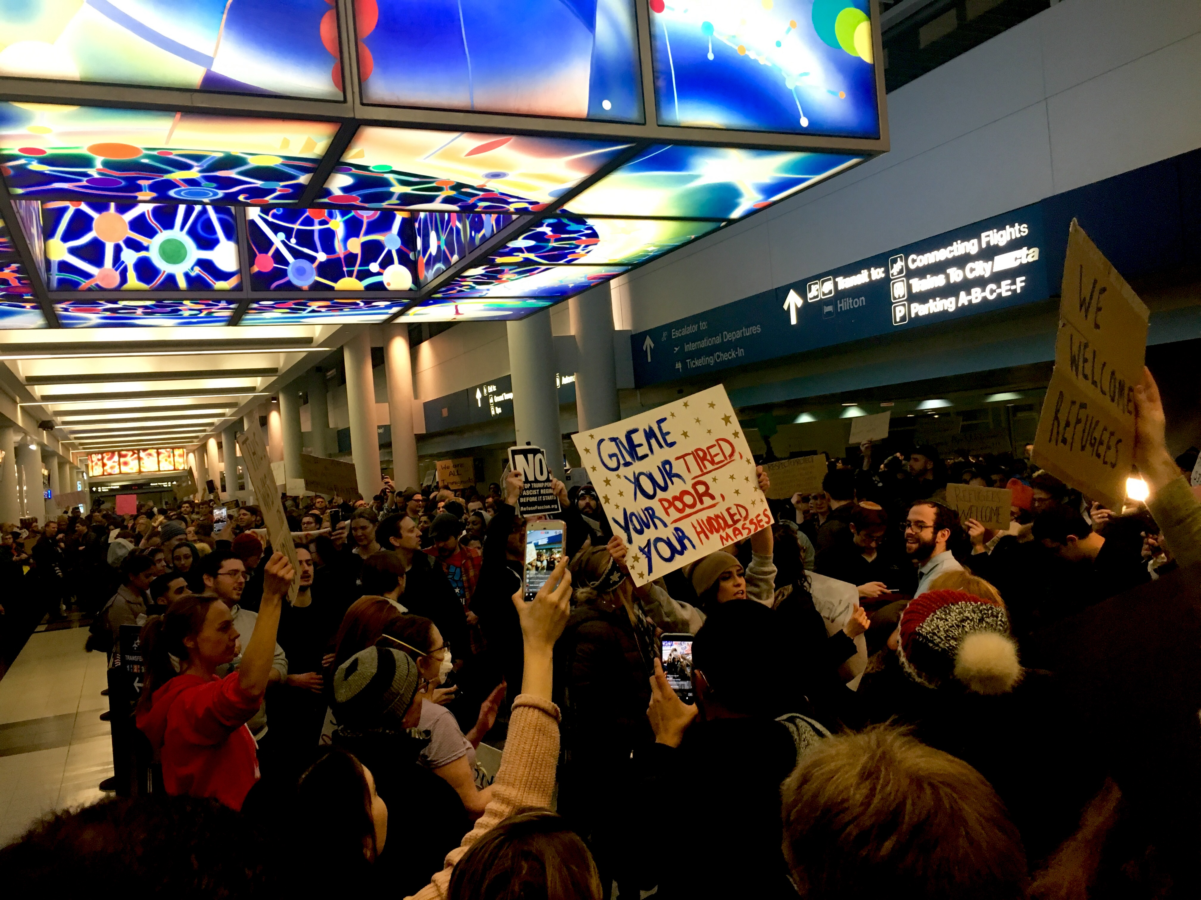 Chicago O'Hare, 1/28/17